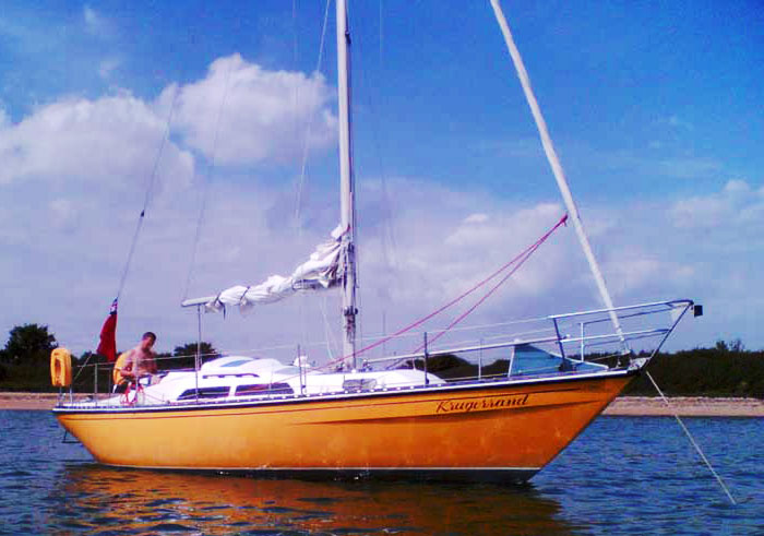 A yellow Varne 27 "Krugerrand" anchored at Osea Island